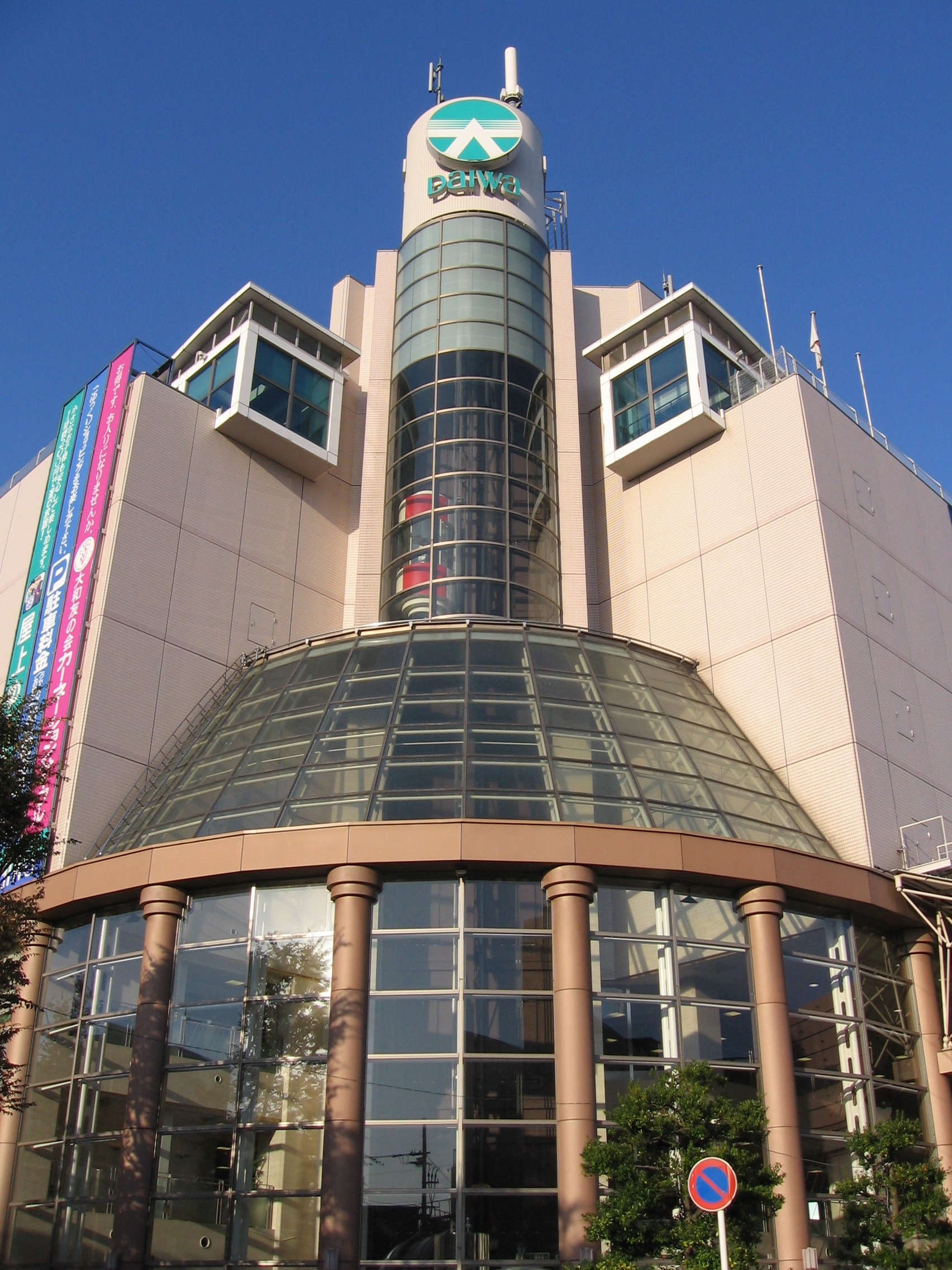 Otaya Serio